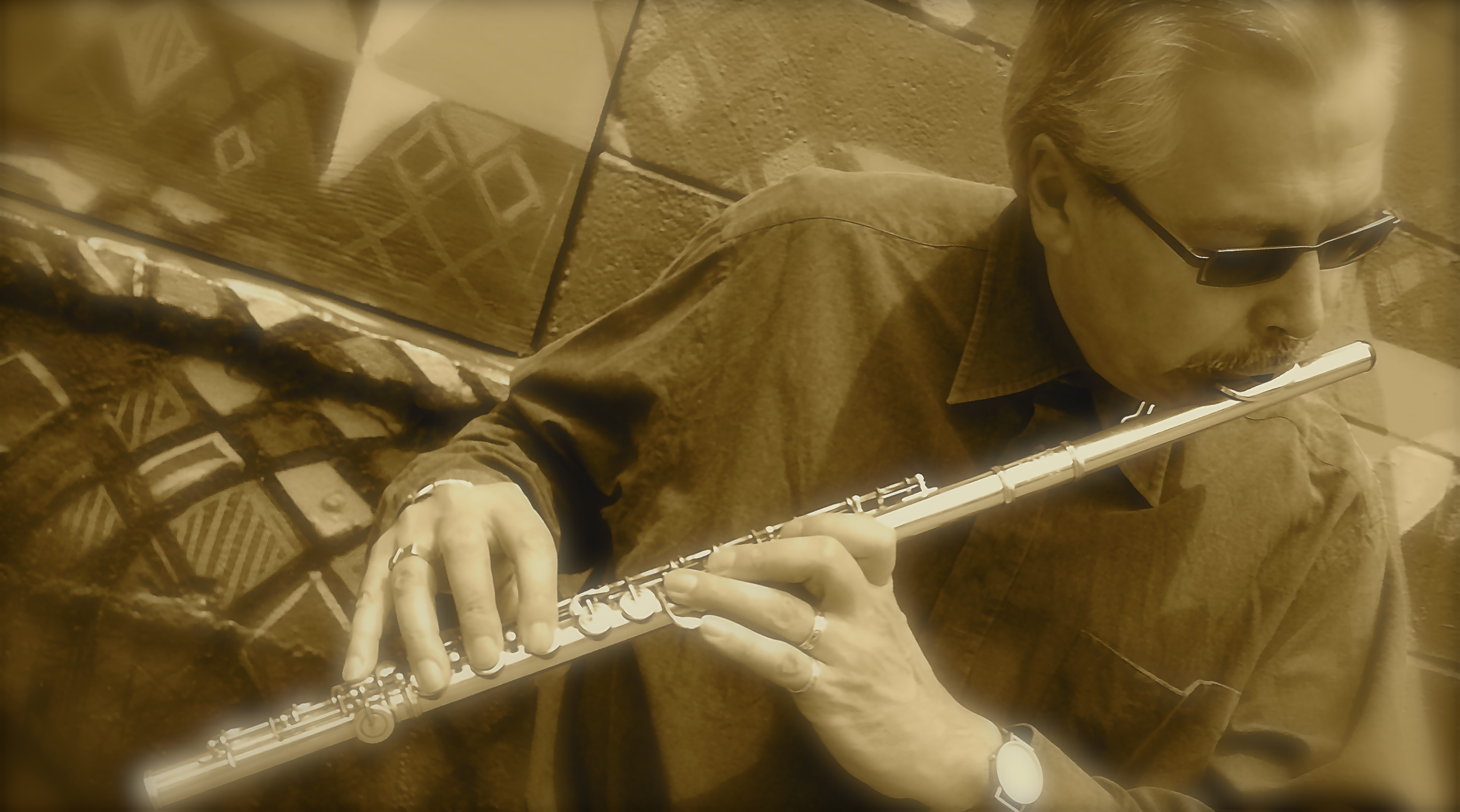 Bill McBirnie - Extreme Flute